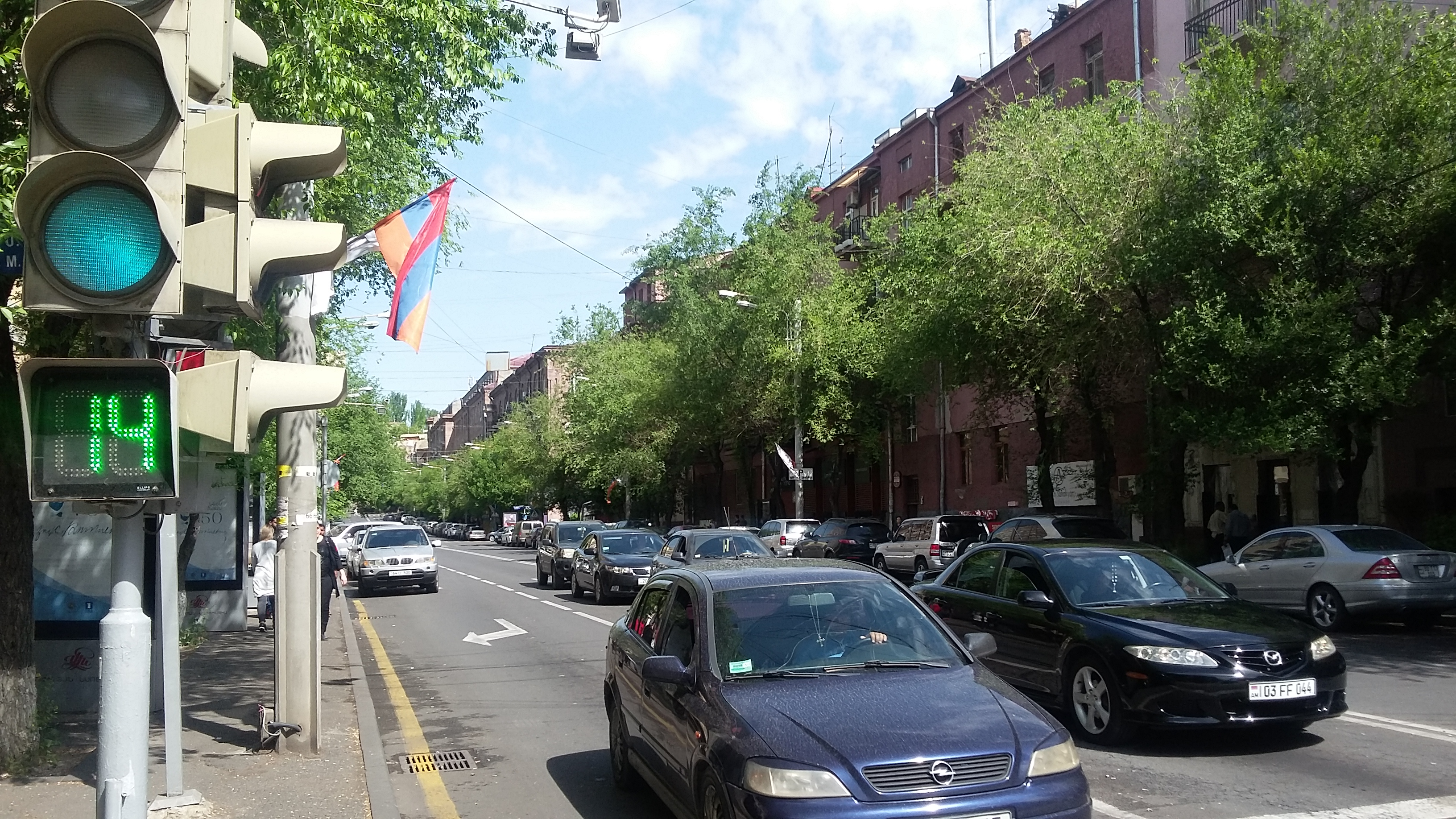 Tumanyan Street, Yerevan